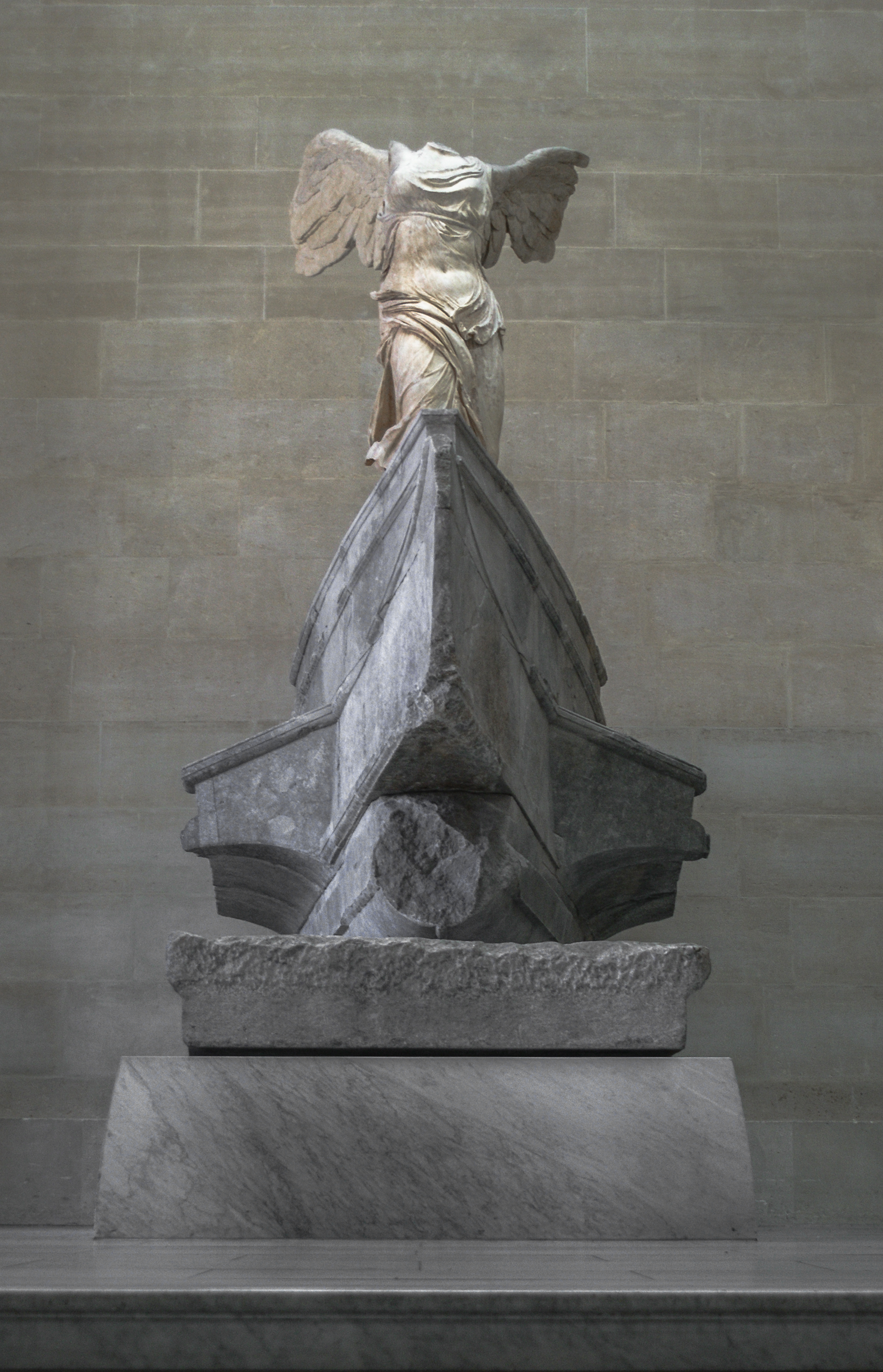 Photo of the Winged Victory of Samothrace, taken by myself on March 21 2015 at the Louvre in Paris